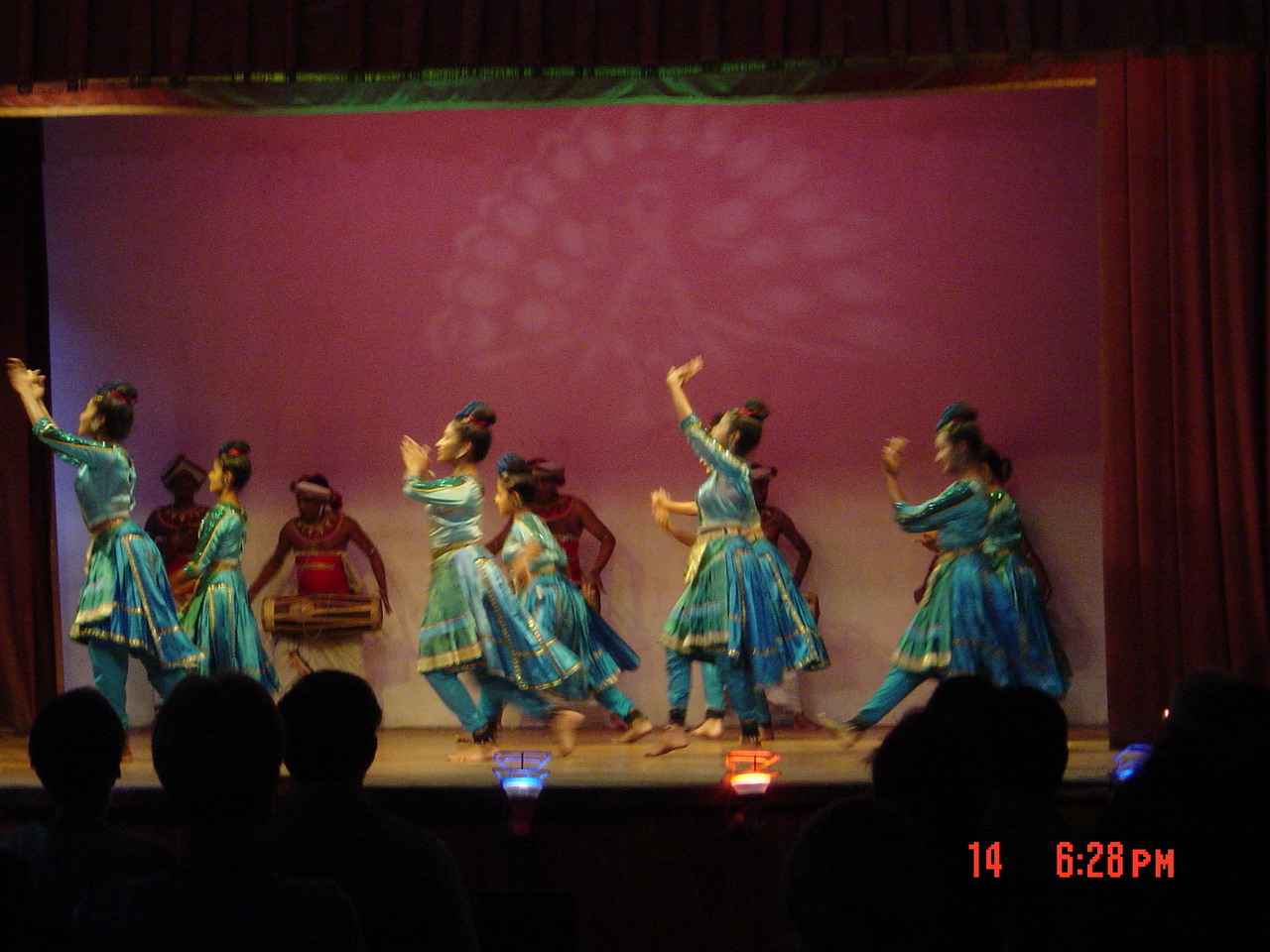 Peacock dance: One of the traditional Kandyan dances - Mayura Natuma, depicting the peacock and dedicated to Lord Skanda (Murugan)